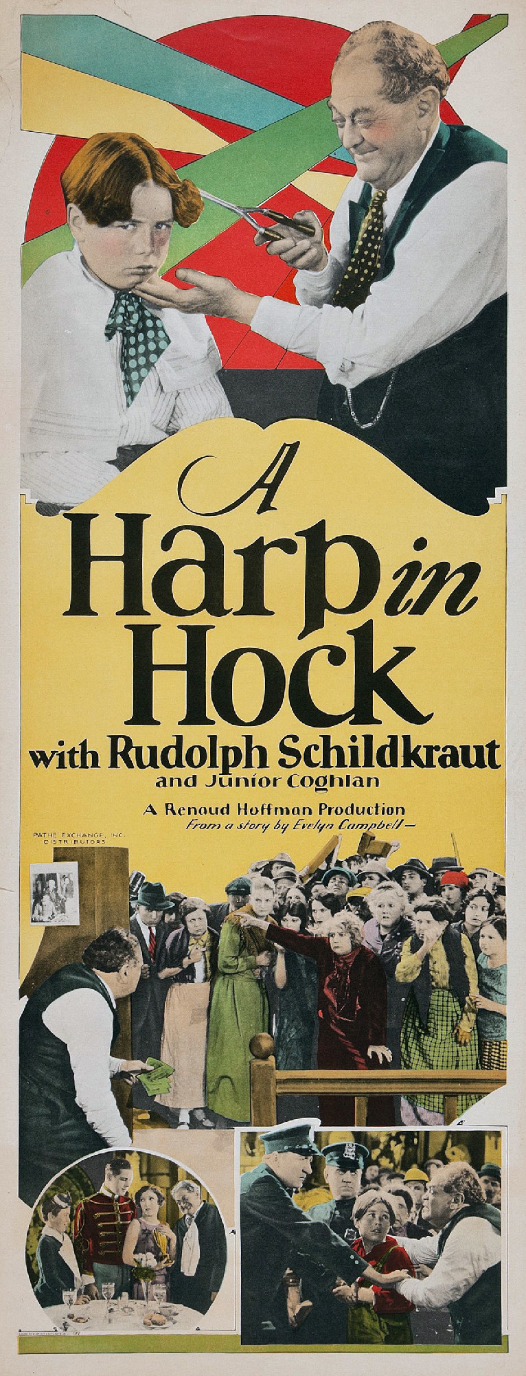 Lobby card for the American melodrama film A Harp in Hock (1927).